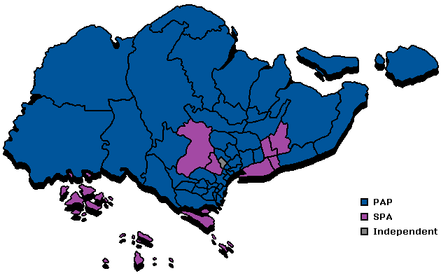 Results of the singaporean general election, 1959, by parliamentary constituency.